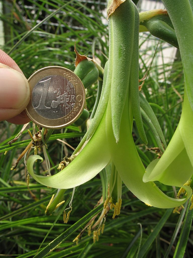 Puya mirabilis in cultivation at the Botanical Garden of Heidelberg, Germany.